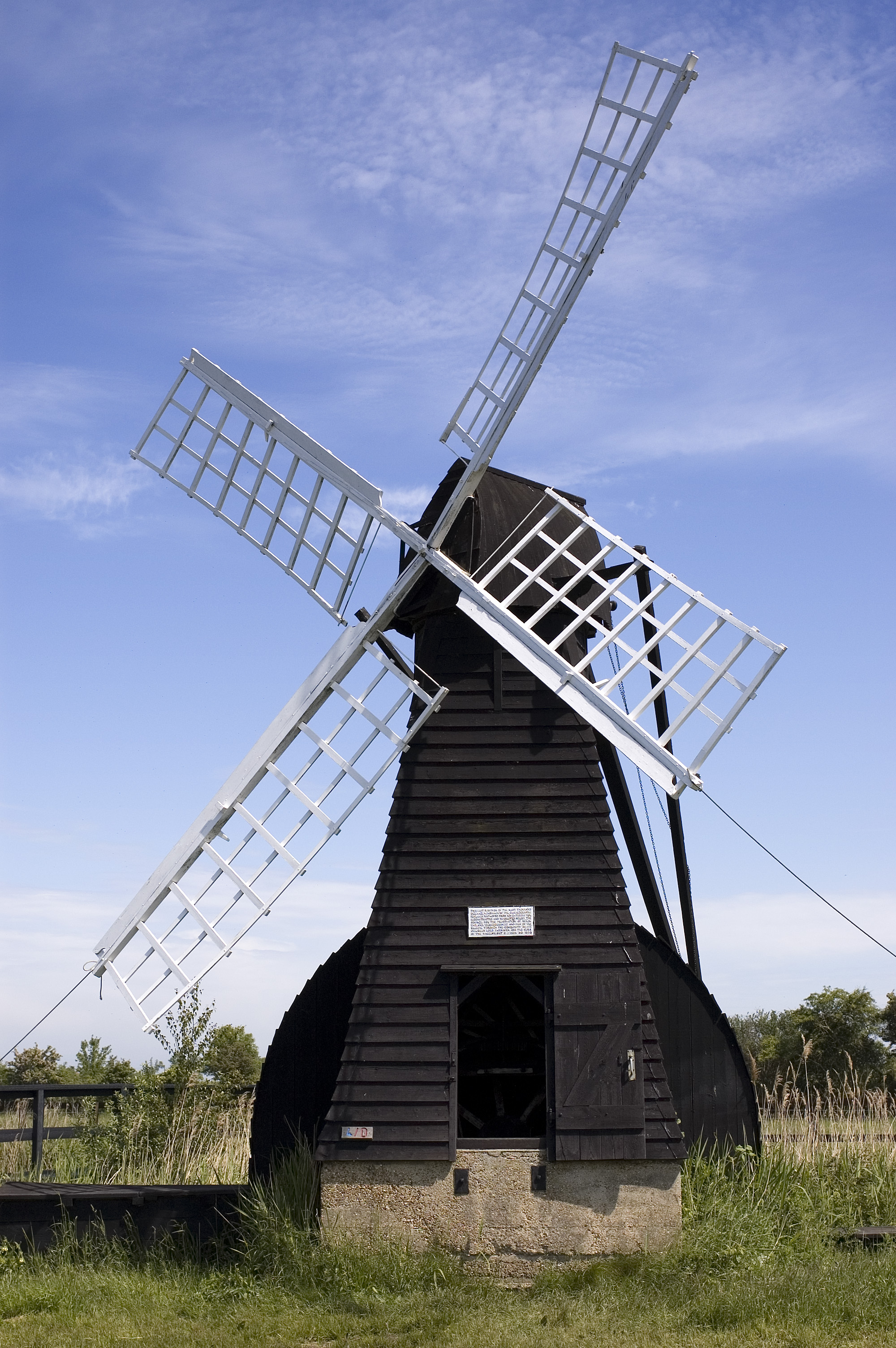 The Windpump at Wicken Fen, Cambridgeshire. This windpump is the only working wooded windpump in the Fens.